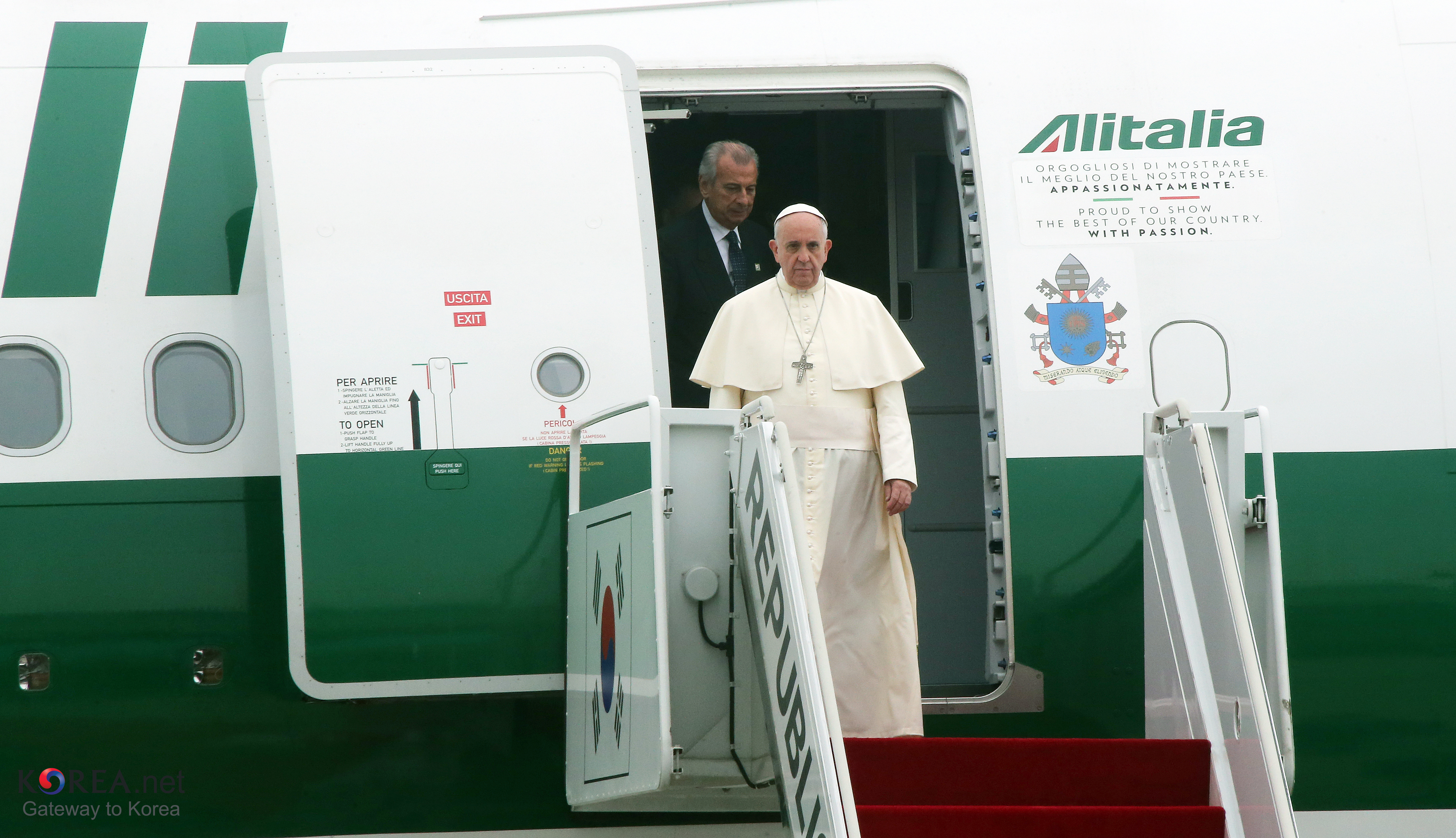 Pope Francis arrives at Seoul Airport